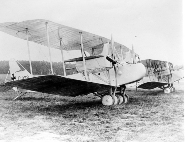 PictionID:43638445 - Catalog:16_004604 - Title:AEG (Allgemeine Elektricitﾊts-Gesellschaft)G III (G I in rear) - Filename:16_004604.TIF - - - - - - - Image from the Ray Wagner Collection. Ray Wagner was Archivist at the San Diego Air and Space Museum for several years and is an author of several books on aviation --- ---Please Tag these images so that the information can be permanently stored with the digital file.---Repository: San Diego Air and Space Museum